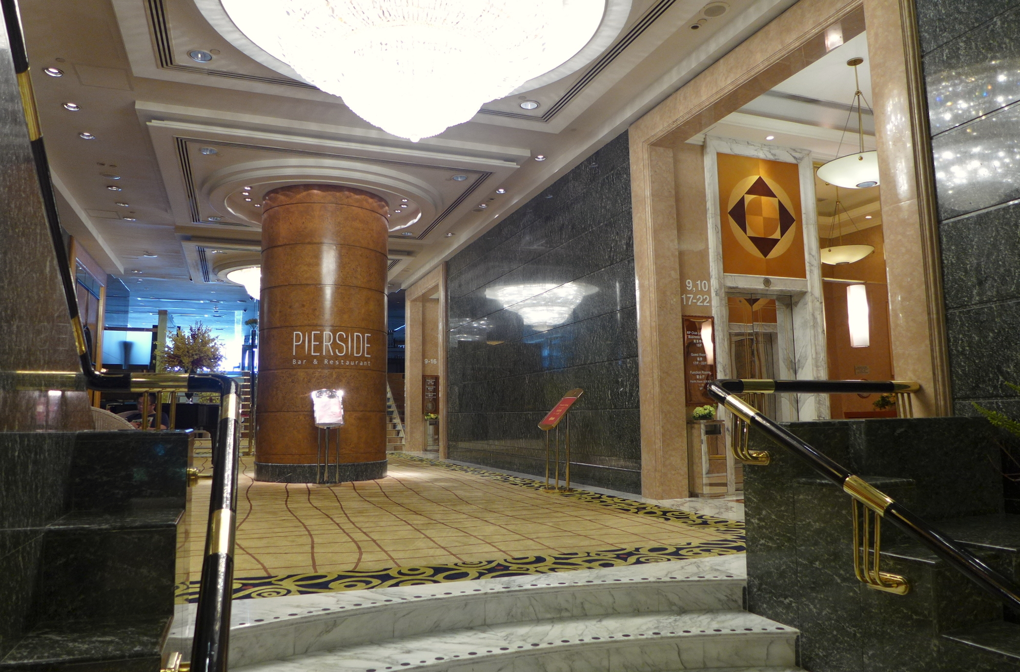 The Royal Pacific Hotel and Towers Hong Kon Lobby